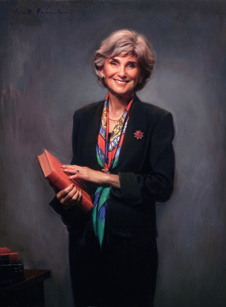 Official oil portrait art by Scott Wallace Johnston of Judge Susan Illston